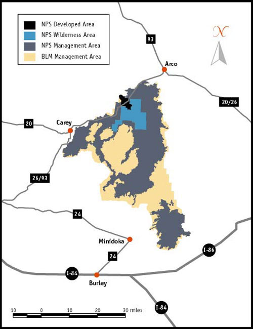 Craters of the Moon National Monument and Preserve, Idaho, USA. Schematic map of administrative areas by the National Park Service and the Bureau of Land Management.